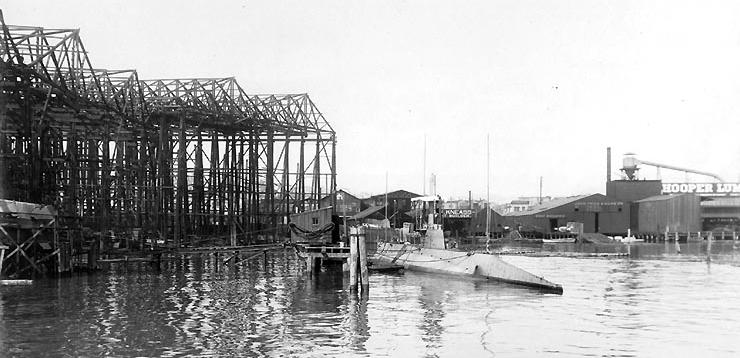 A cropped photograph of the USS K-3 during her initial fitting out on April 7, 1914.